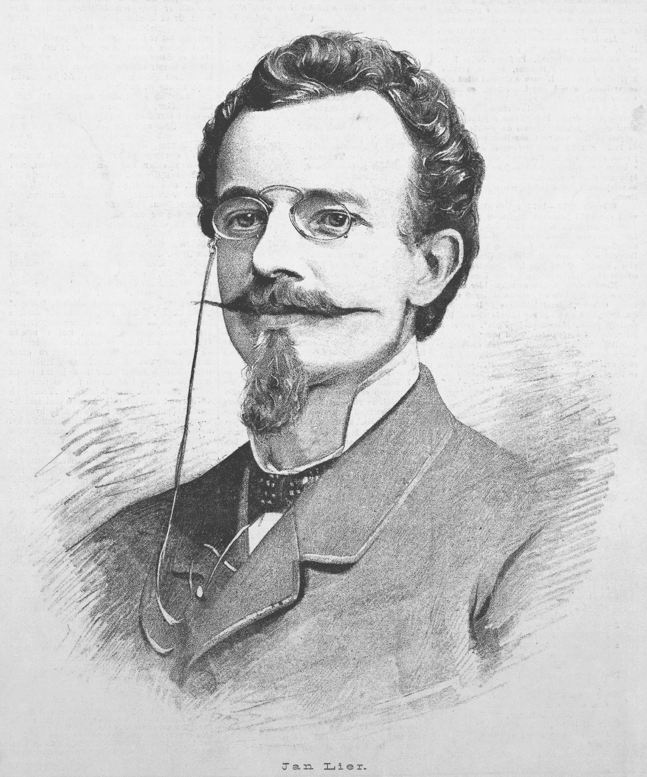 Portrait of Jan Lier (1852–1917), Czech writer.